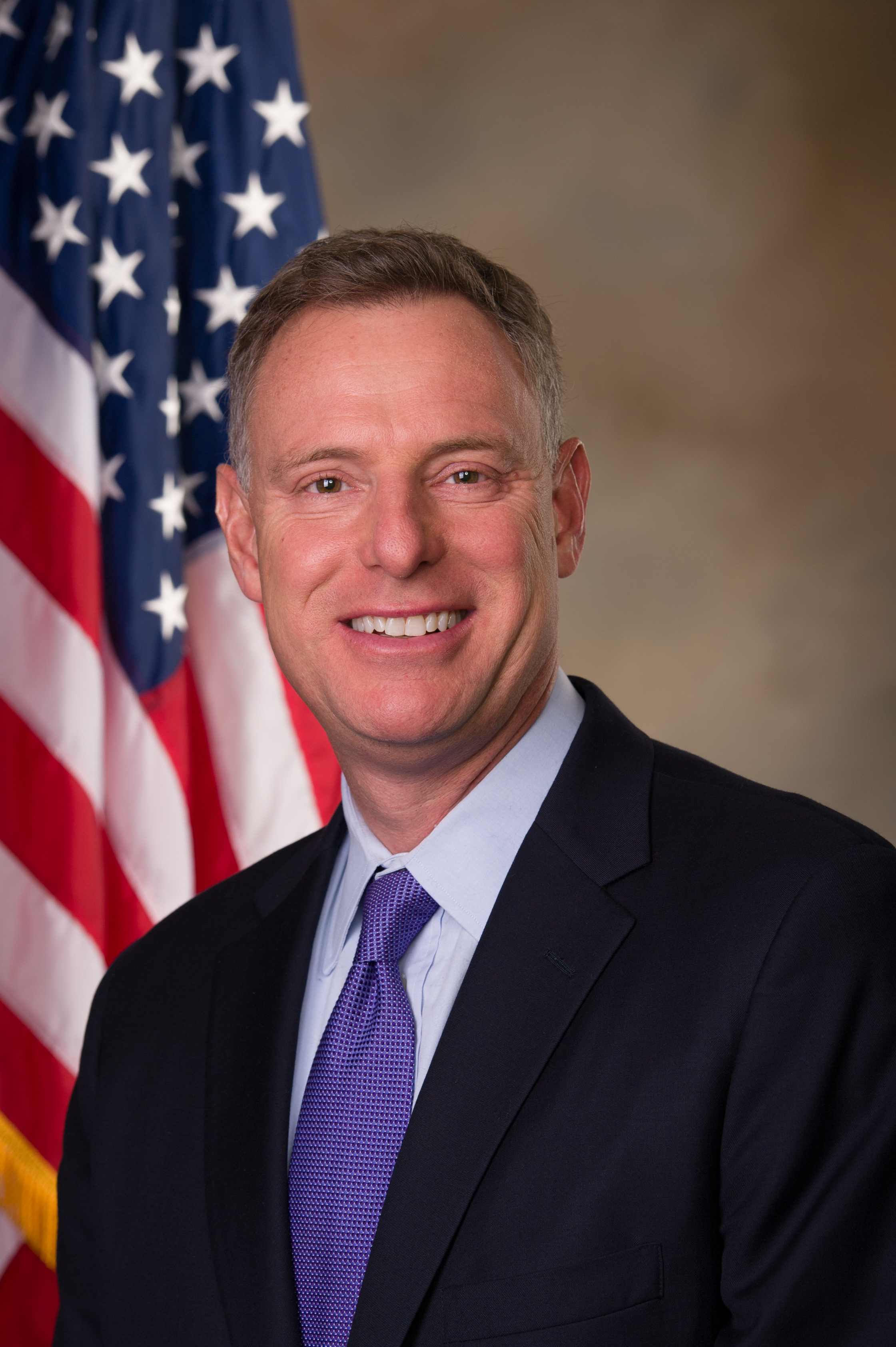 Official Congressional Portrait of California Representative Scott Peters (113th Congress).